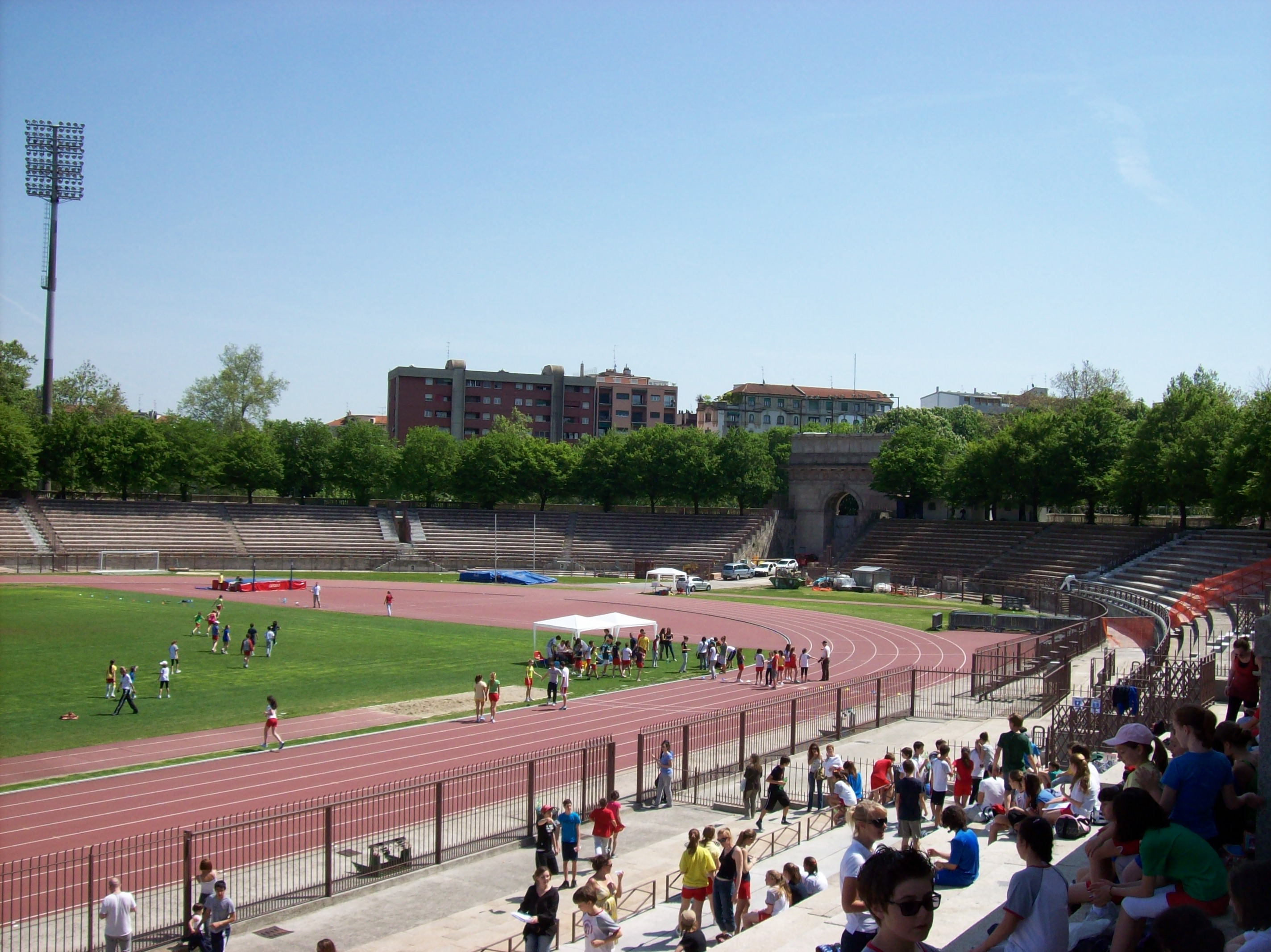 Arena Civica "Gianni Brera" in Milan: the southern stand and gate